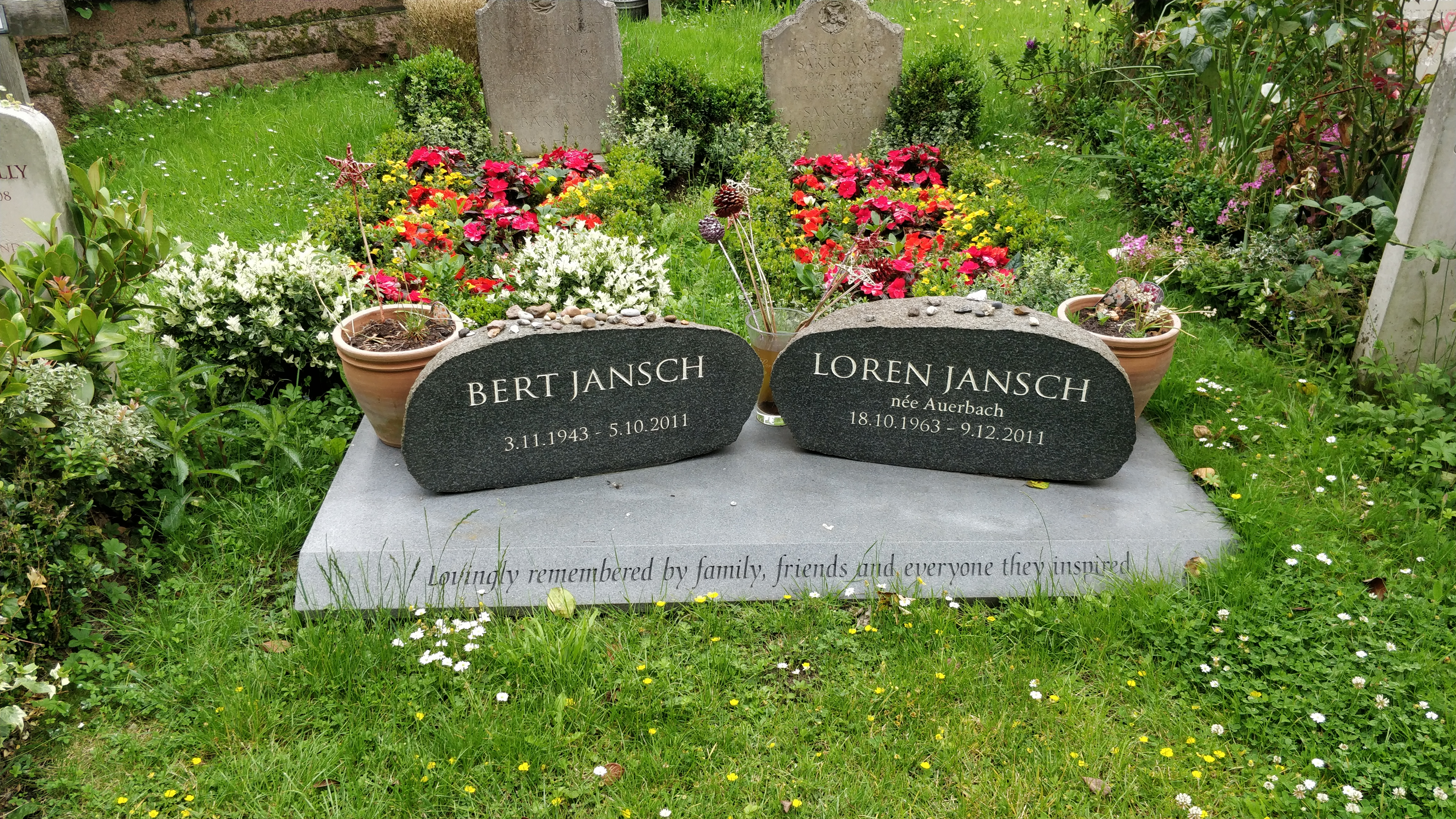 The grave of Bert Jansch and his wife Loren Jansch in Highgate Cemetery (East), London, as seen in June 2019.